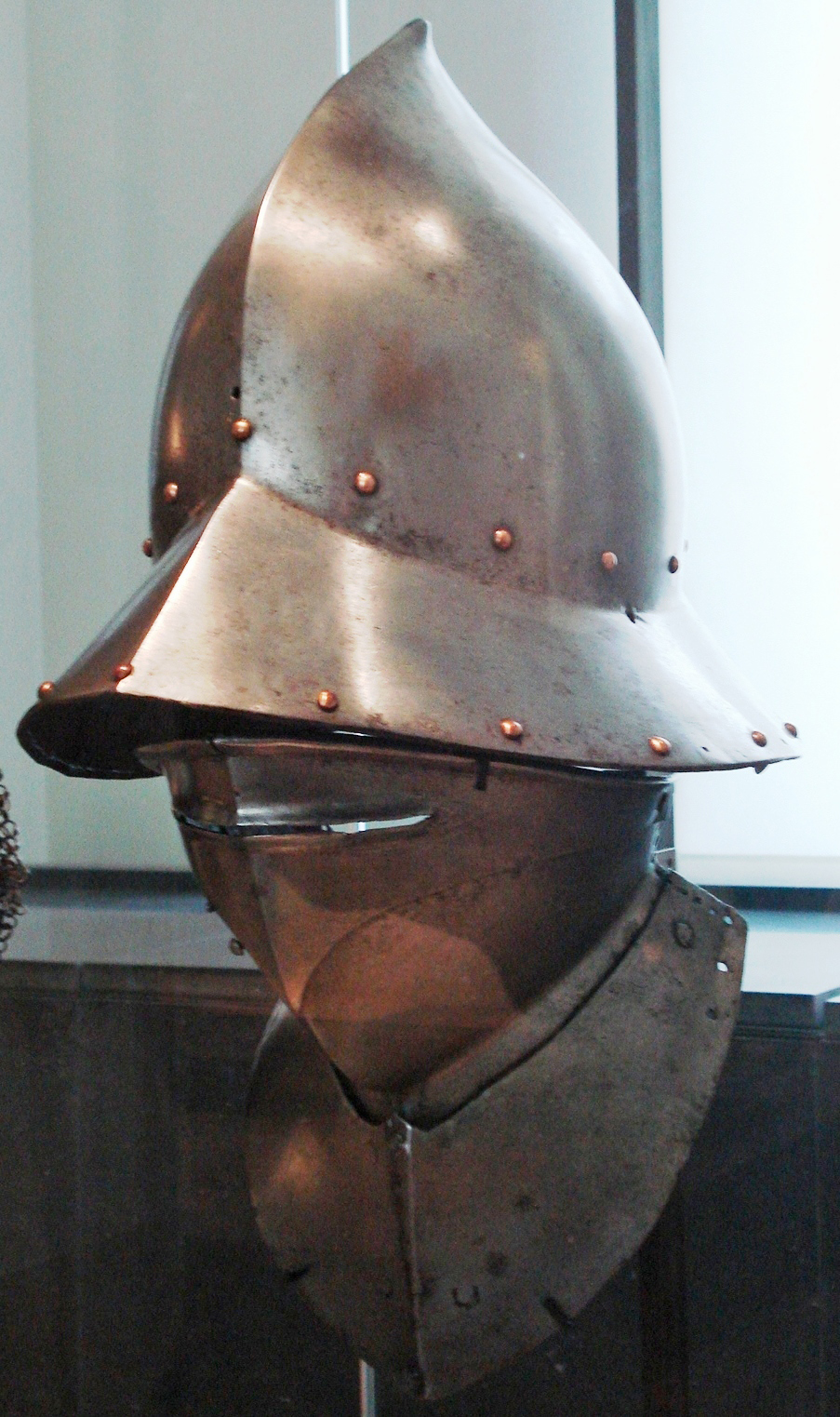 Kettle hat and bevor. Made in Calatayud (Aragon, Spain) ca. 1470. Les Invalides (Paris)